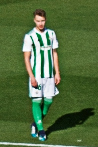 Loren Morón vs. Villarreal.